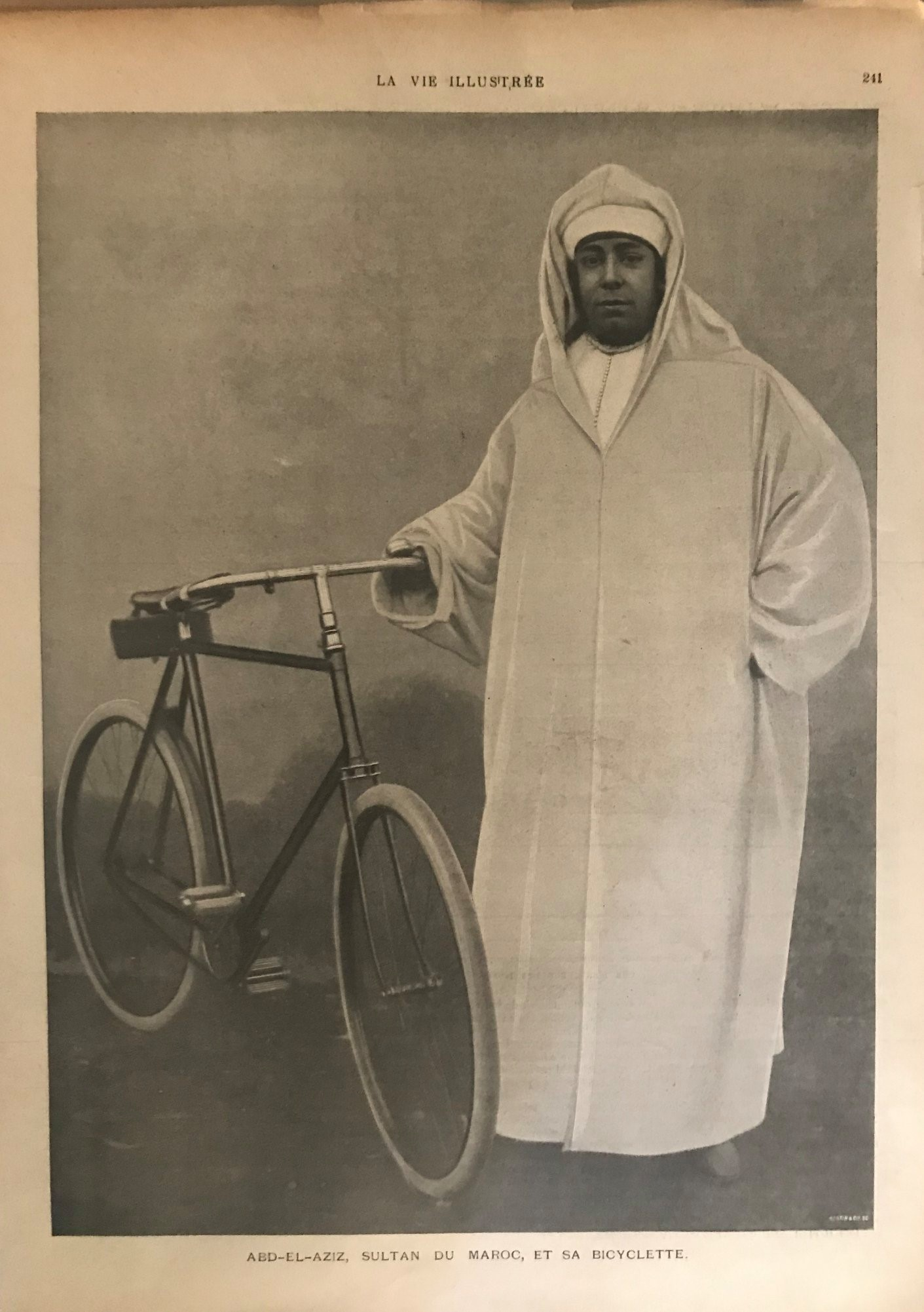 La Vie Illustrée n. 143, July 12, 1901: Abd-el-Aziz, Sultan of Morocco, with his bicycle